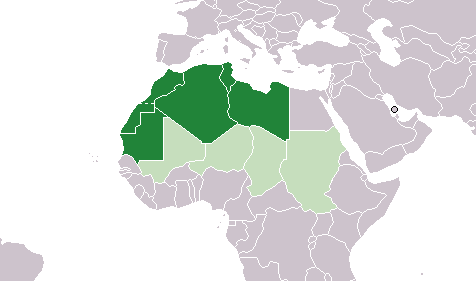 In May 1989 Libya invited the Sahel-states Niger, Mali, Chad and Sudan to join the Union of Arab Maghreb / Sahel-states light-green, Maghreb-Union dark-green